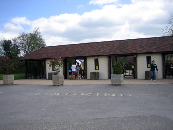 Entrance to Monkey World, near Wareham. Set amongst the woodland of Dorset lies 65 acres of sanctuary for over 150 primates. Monkey World was set up in 1987 by Jim and Alison Cronin to provide abused Spanish beach chimps with a permanent, stable home. Today Monkey World works in conjunction with foreign governments from all over the world to stop the illegal smuggling of apes out of Africa and Asia. At the park visitors can see more than 150 primates of 15 different species. There are currently 56 chimpanzees at Monkey World, which makes it the largest group outside Africa.